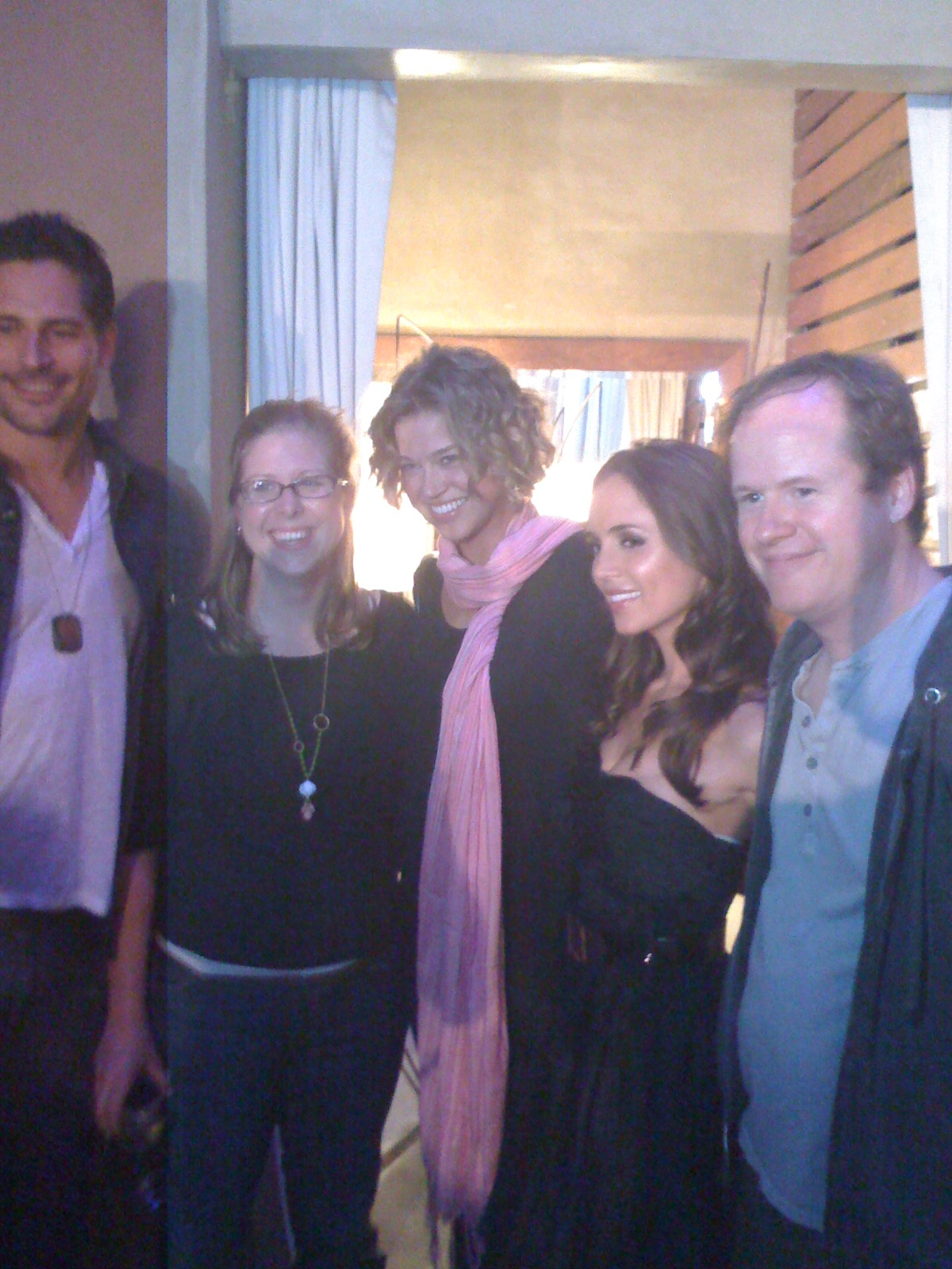 From right Joss Whedon, Eliza Dushku and others at Comic-Con 2008